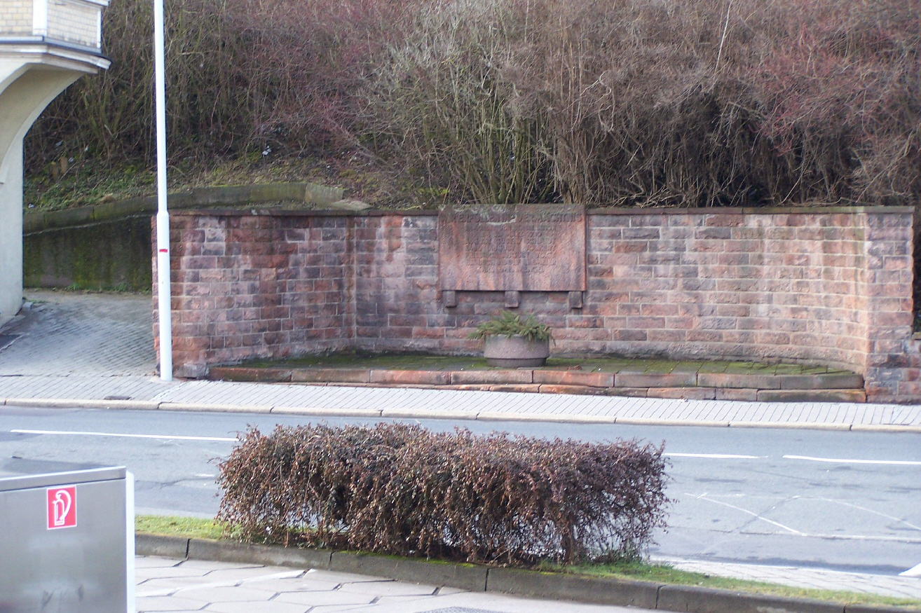 The monument for the victims of the revolte in Eisenach in march 1920.